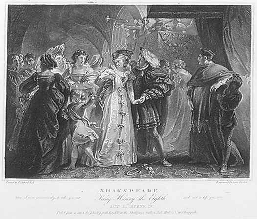 Henry VIII: Act I, Scene 4: Henry's first sight of Anne Boleyn